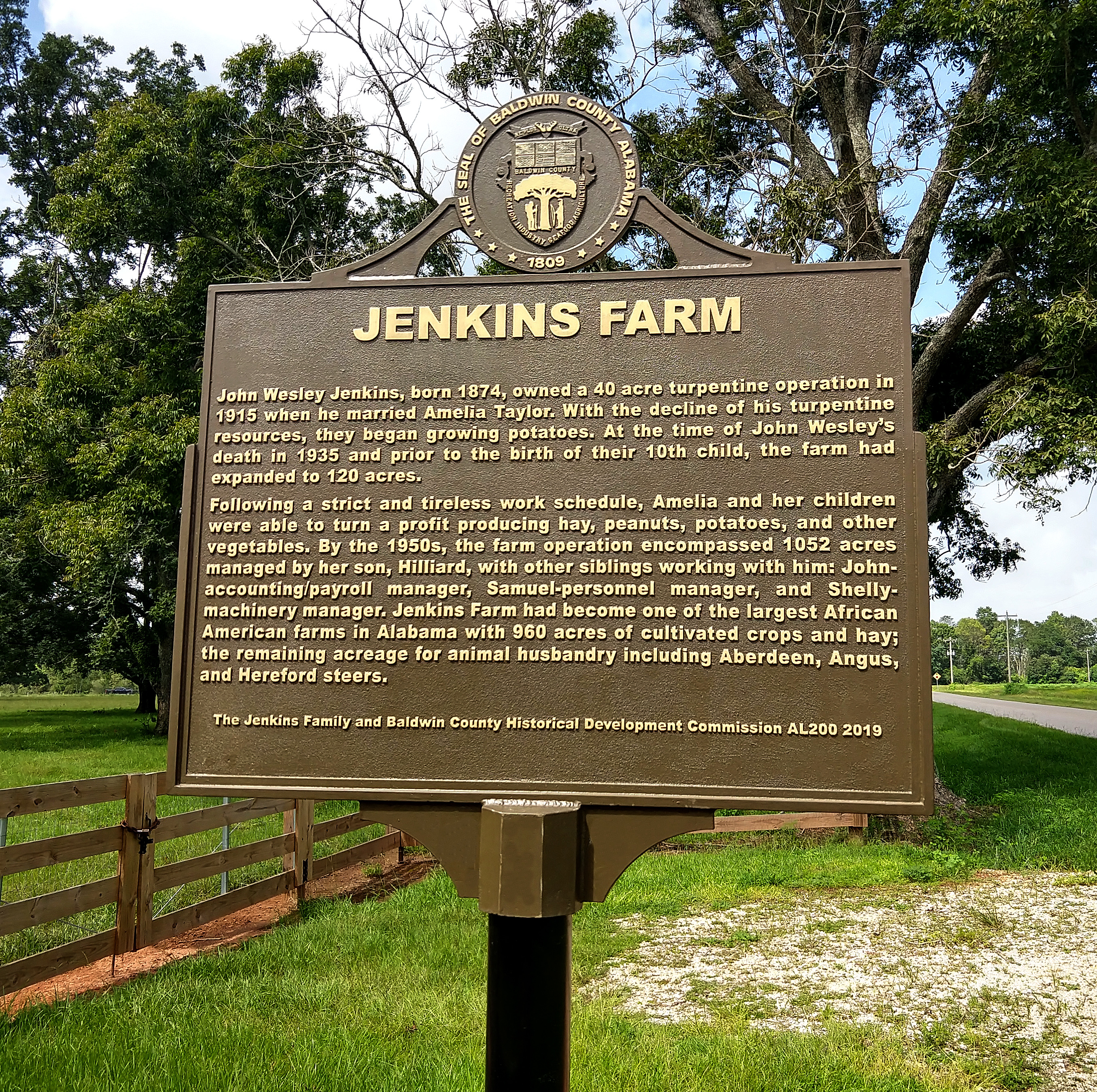 Jenkins Farm historic sign in Loxley, Alabama, commemorating the establishment of the John Wesley Jenkins family farm and home in 1935. The sign reads thus: John Wesley Jenkins, born 1874, owned a 40 acre turpentine operation in 1915 when he married Amelia Taylor. With the decline of his turpentine resources, they began growing potatoes. At the time of John Wesley’s death in 1935 and prior to the birth of their 10th child, the farm had expanded to 120 acres. Following a strict and tireless work schedule, Amelia and her children were able to turn a profit producing hay, peanuts, potatoes, and other vegetables. By the 1950s, the farm operation encompassed 1052 acres managed by her son, Hilliard, with other siblings working with him: John-accounting/payroll manager, Samuel-personnel manager, and Shelly-machinery manager. Jenkins Farm had become one of the largest African American farms in Alabama with 960 acres of cultivated crops and hay; the remaining acreage for animal husbandry including Aberdeen, Angus and Hereford steers.